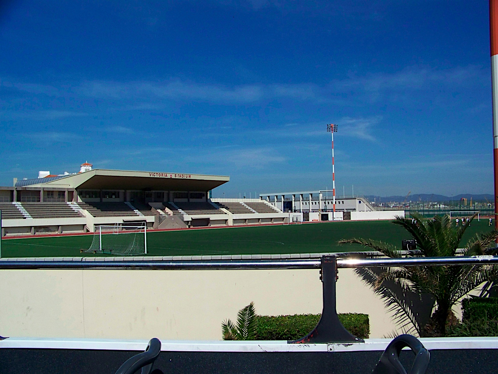 View of Victoria Stadium from Winston Churchill Avenue, Gibraltar.